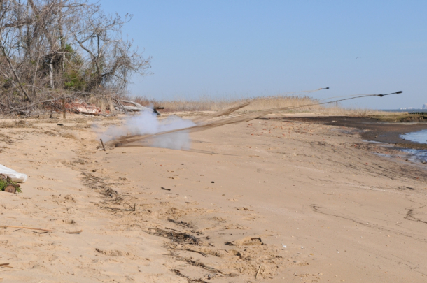 A cannon net is fired! Credit: Greg Breese/USFWS